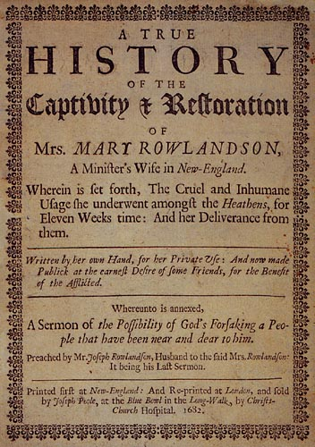 Front Page of Mary Rowlandsons A True History of the Captivity and Restoration of Mrs. Mary Rowlandson, a Minister's Wife in New-England, First edition London 1682. From the Special Collections of the University of Pennsylvania Library.